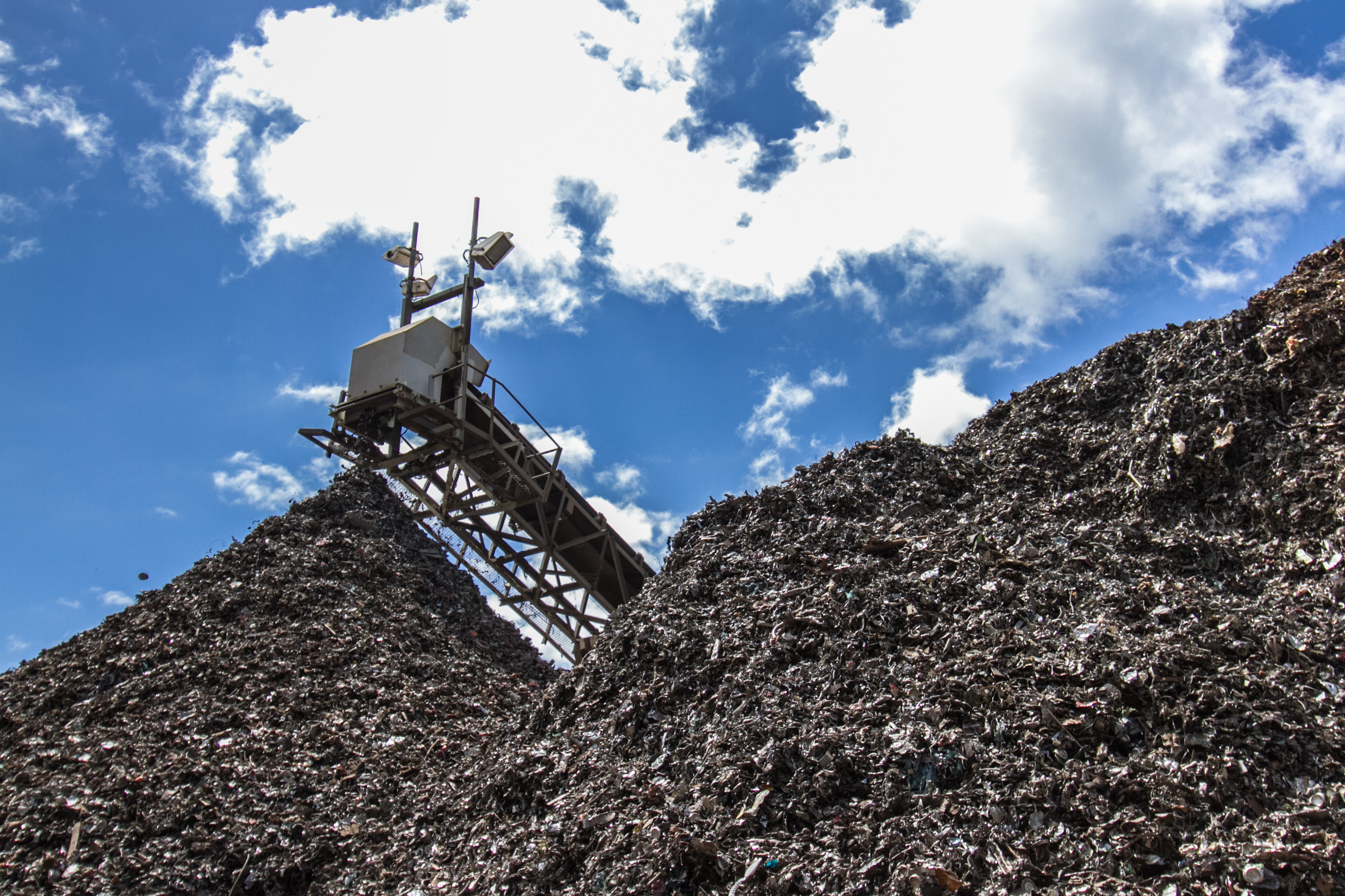 A landfill full of processed scrap on the SA Metal yard